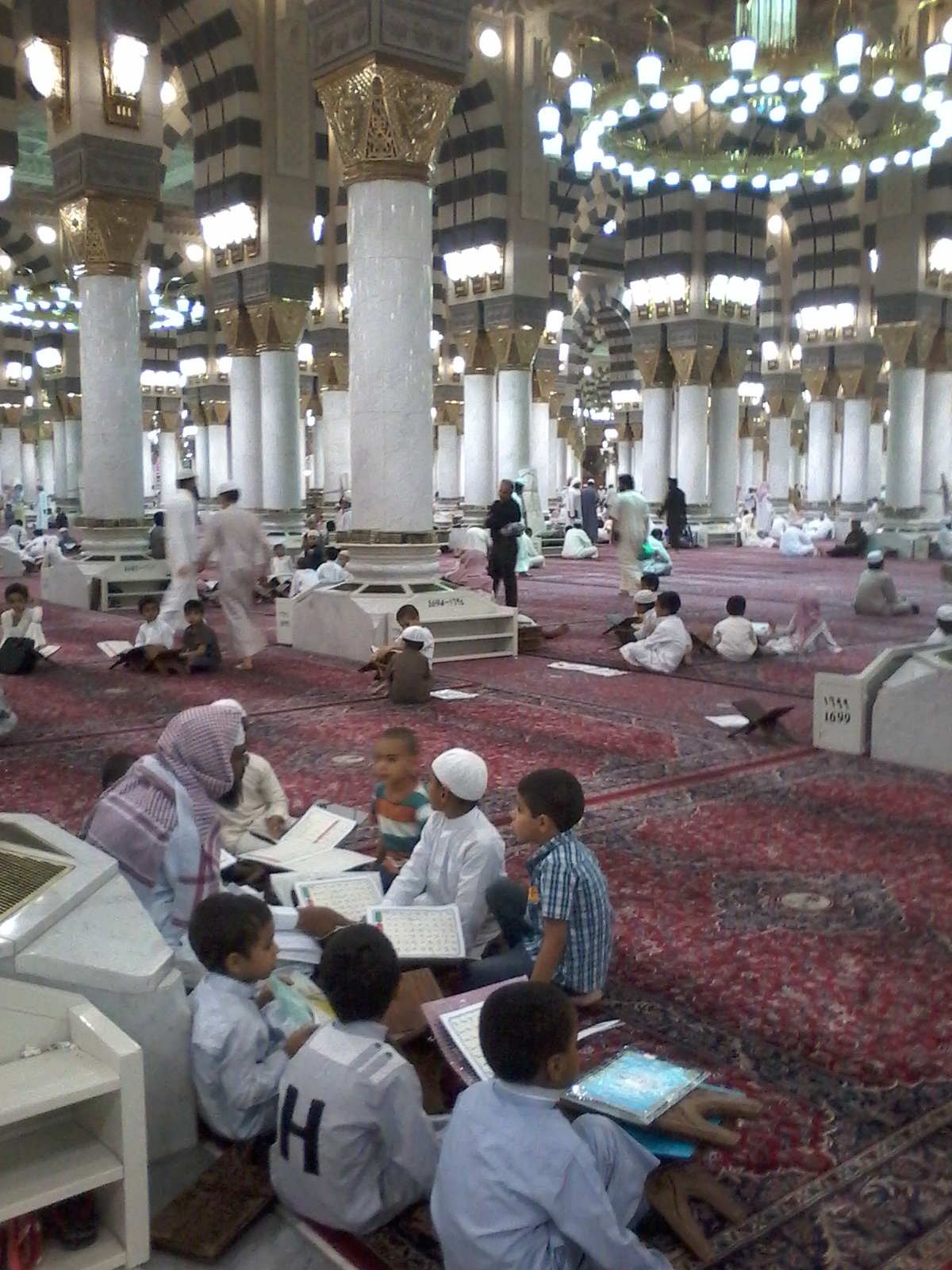 Qur'an Halaqah in Prophet Mosque, Madinah, Saudi Arabia